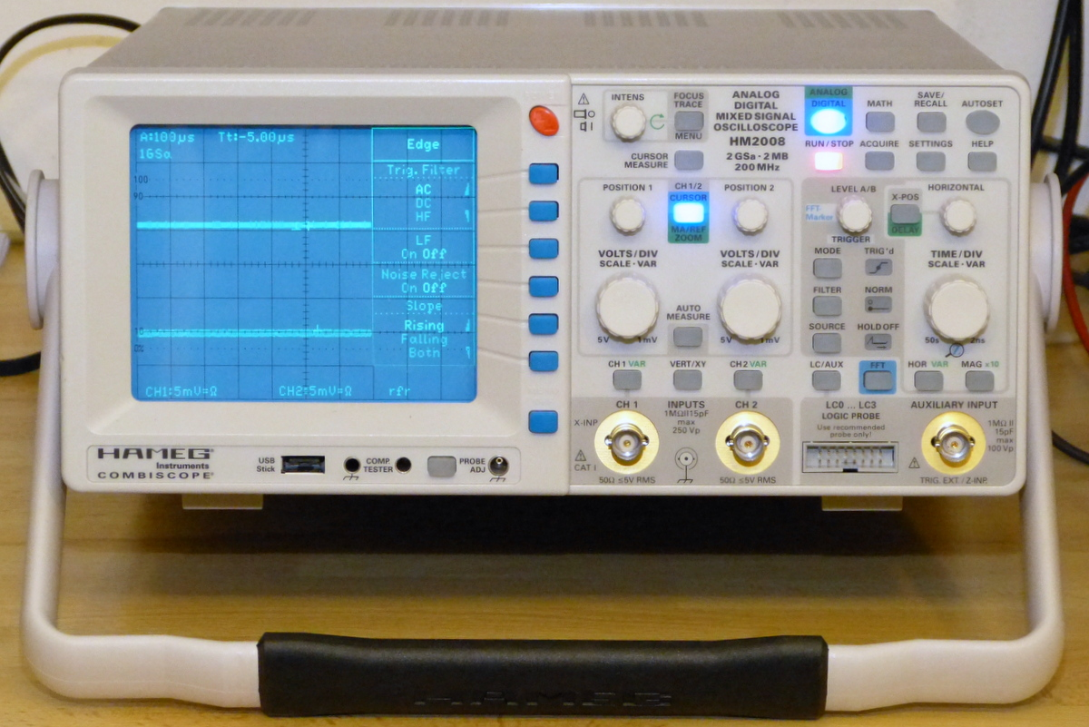 HAMEG CombiScope HM2008, 200MHz, 2 analog channels, 4 MSO channels